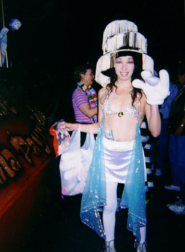 New Orleans Carnival: Krewe du Vieux paraders. Photo by Infrogmation, Carnival 1999